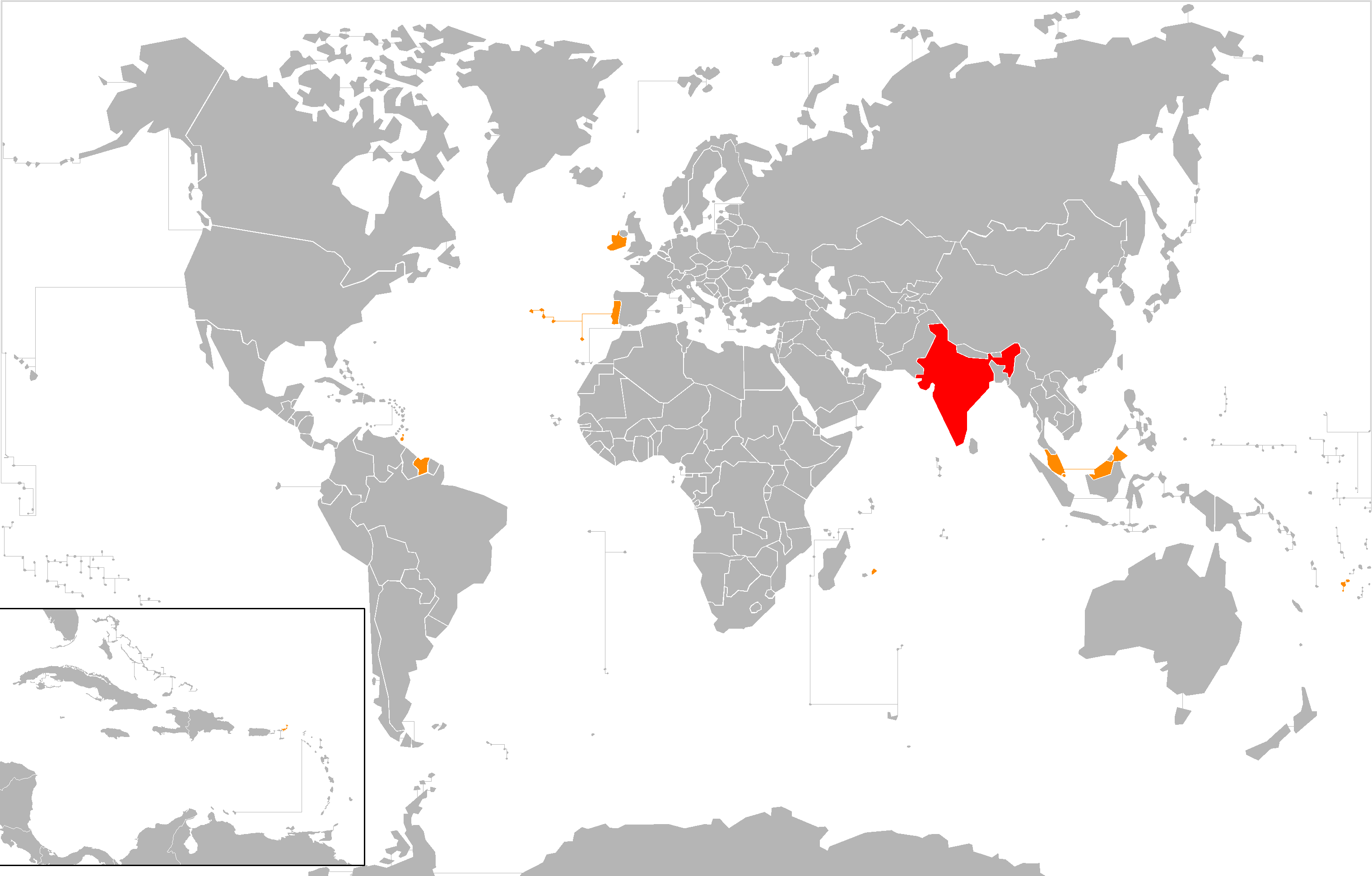 Heads of states of Indian descent